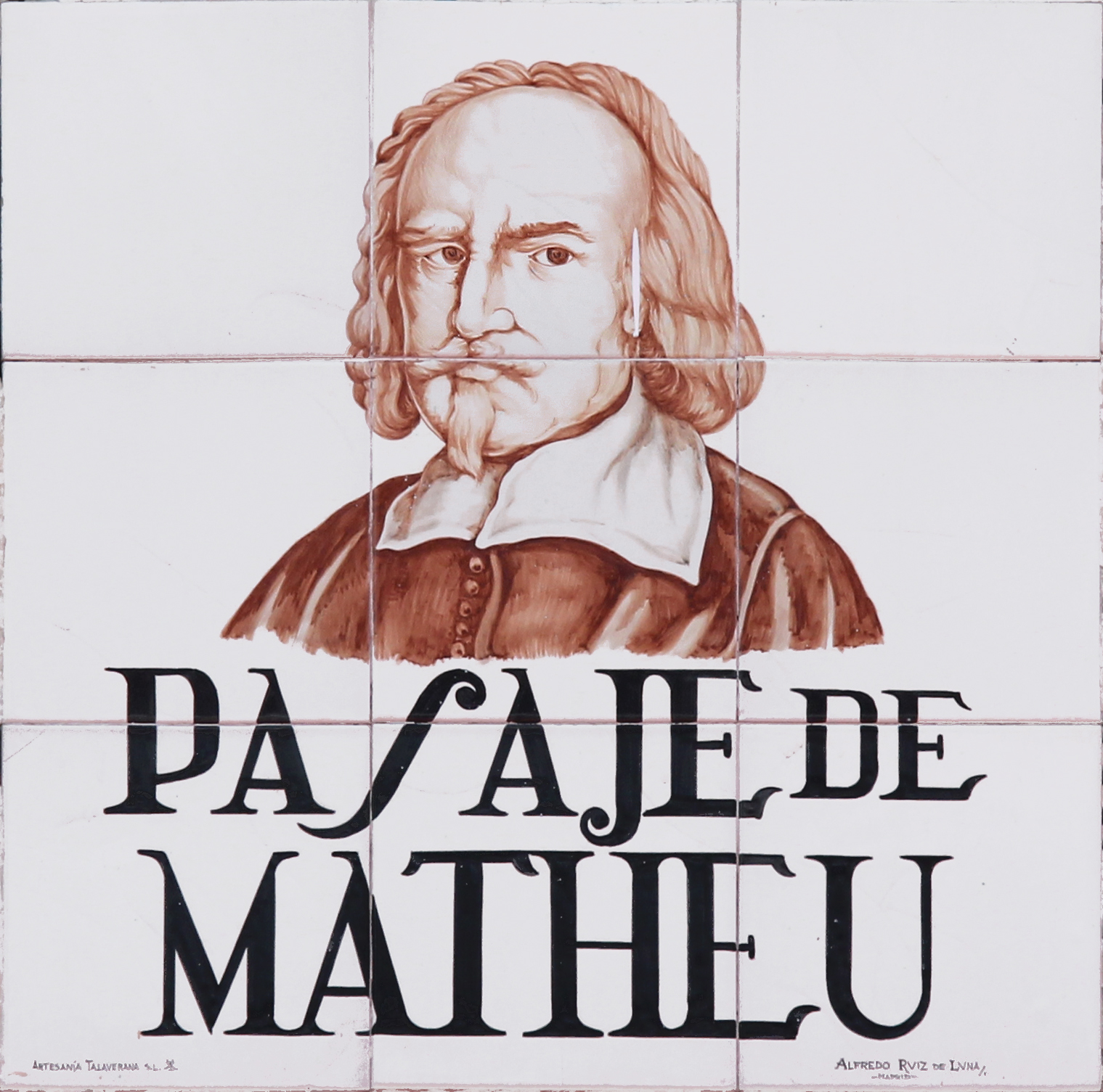 Sign of Pasaje de Matheu (street) in Madrid (Spain).